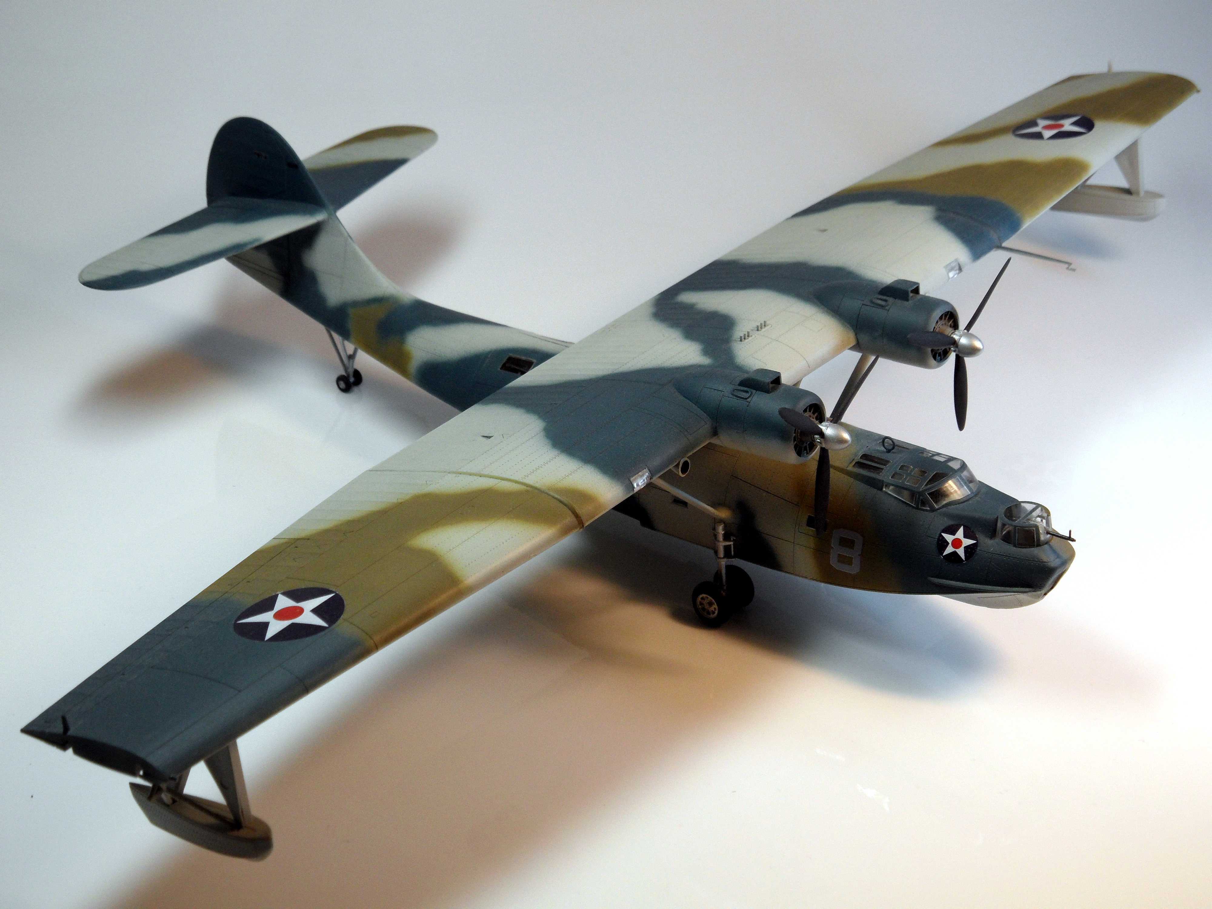 More pictures of My Toy Museum at Flickr. Most of those toys do still have copyrights so i can't publish them here! Academy 1 72 PBY-4 Catalina